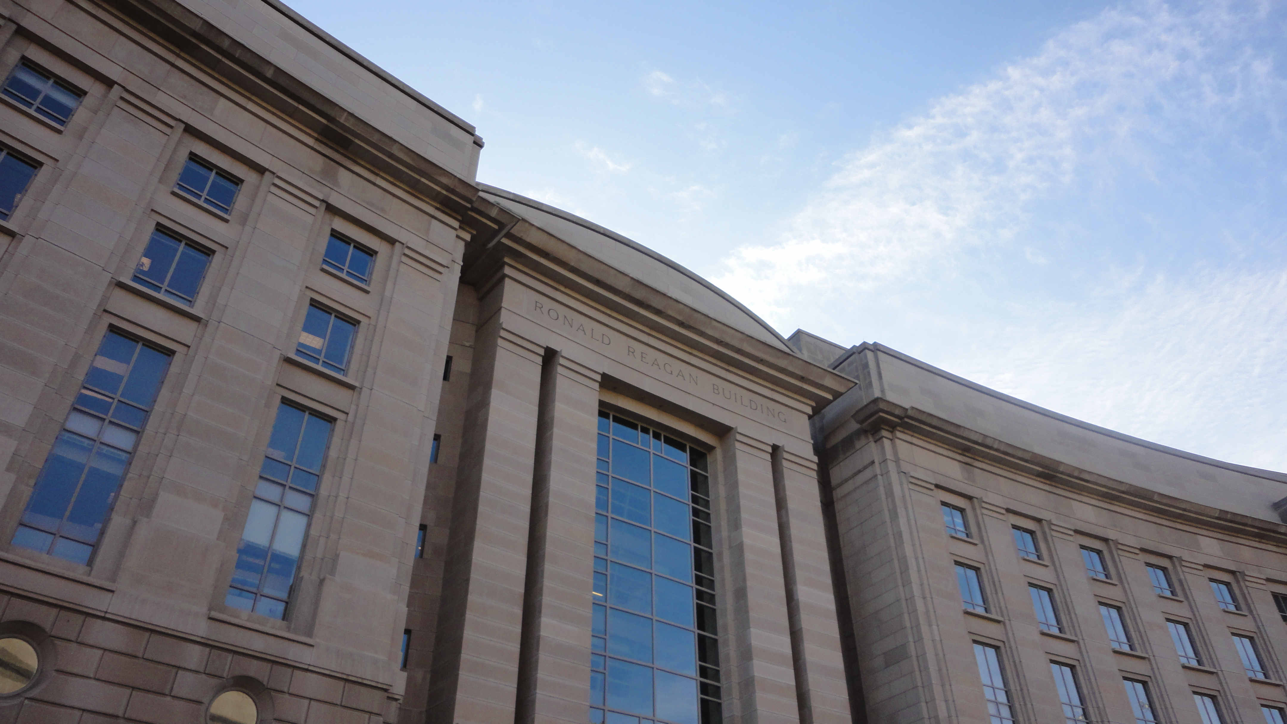 Ronald Reagan Building